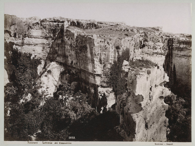 Giorgio Sommer (1834-1914), "Latomie dei Cappuccini in Syracuse". Catalogue # 2652.